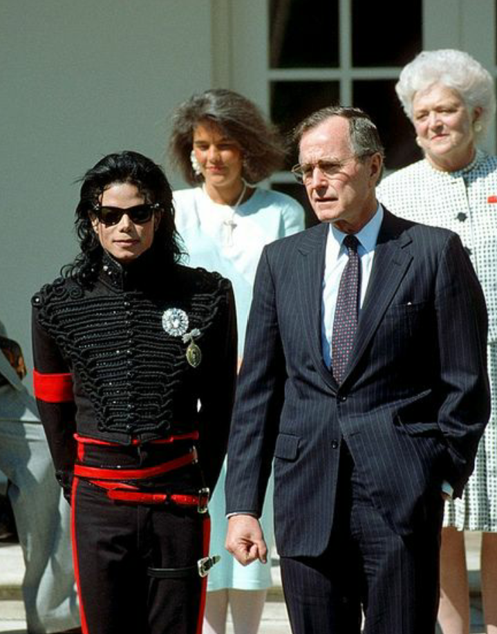 President George H. W. Bush meets Michael Jackson at White House in 1990